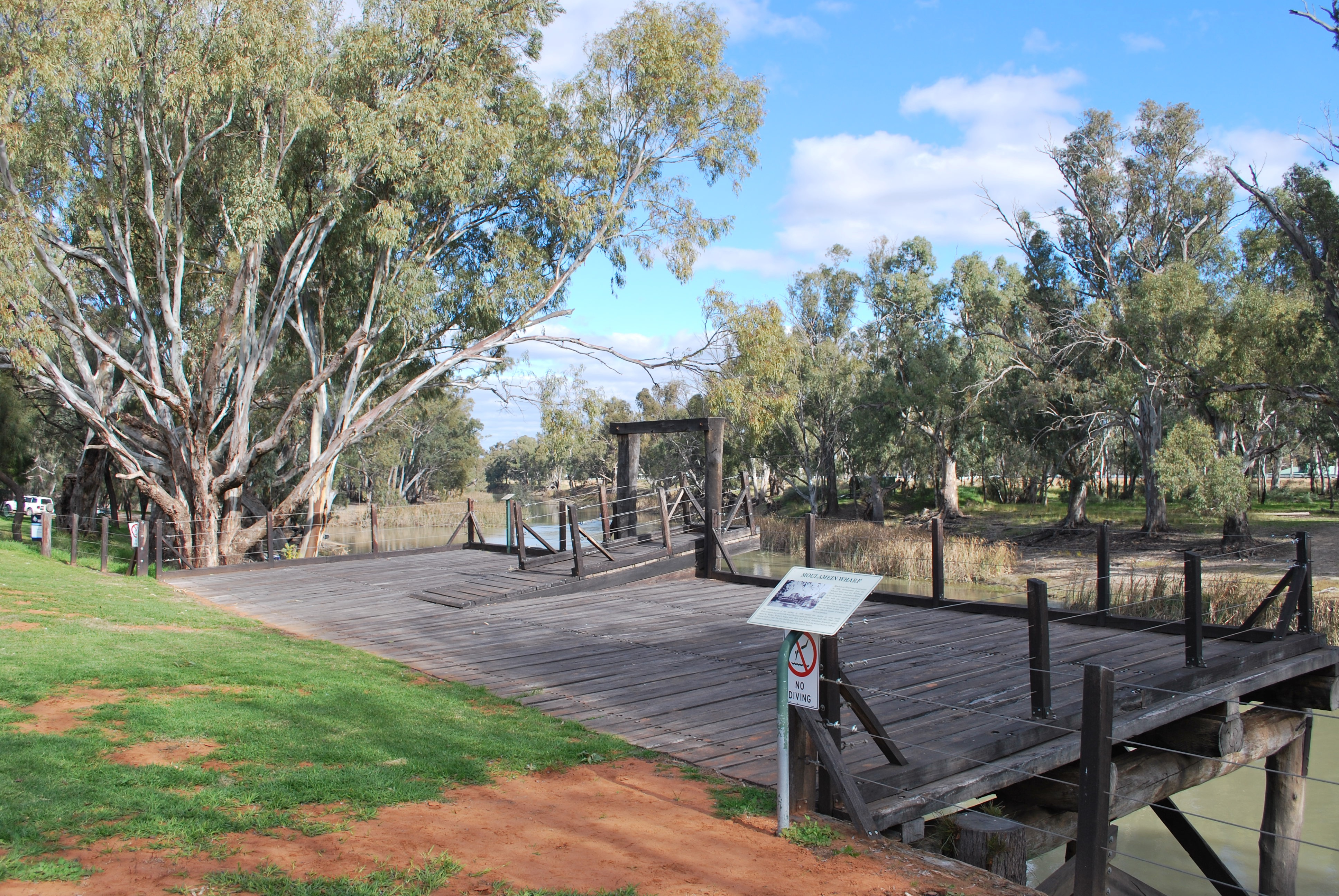 The restored wharf on the Edward River at Moulamein, New South Wales